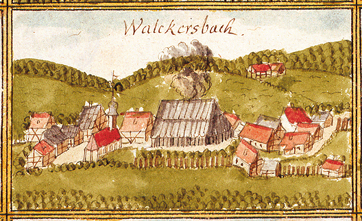 View of Walkersbach, Plüderhausen, from the forest register books created by Andreas Kieser